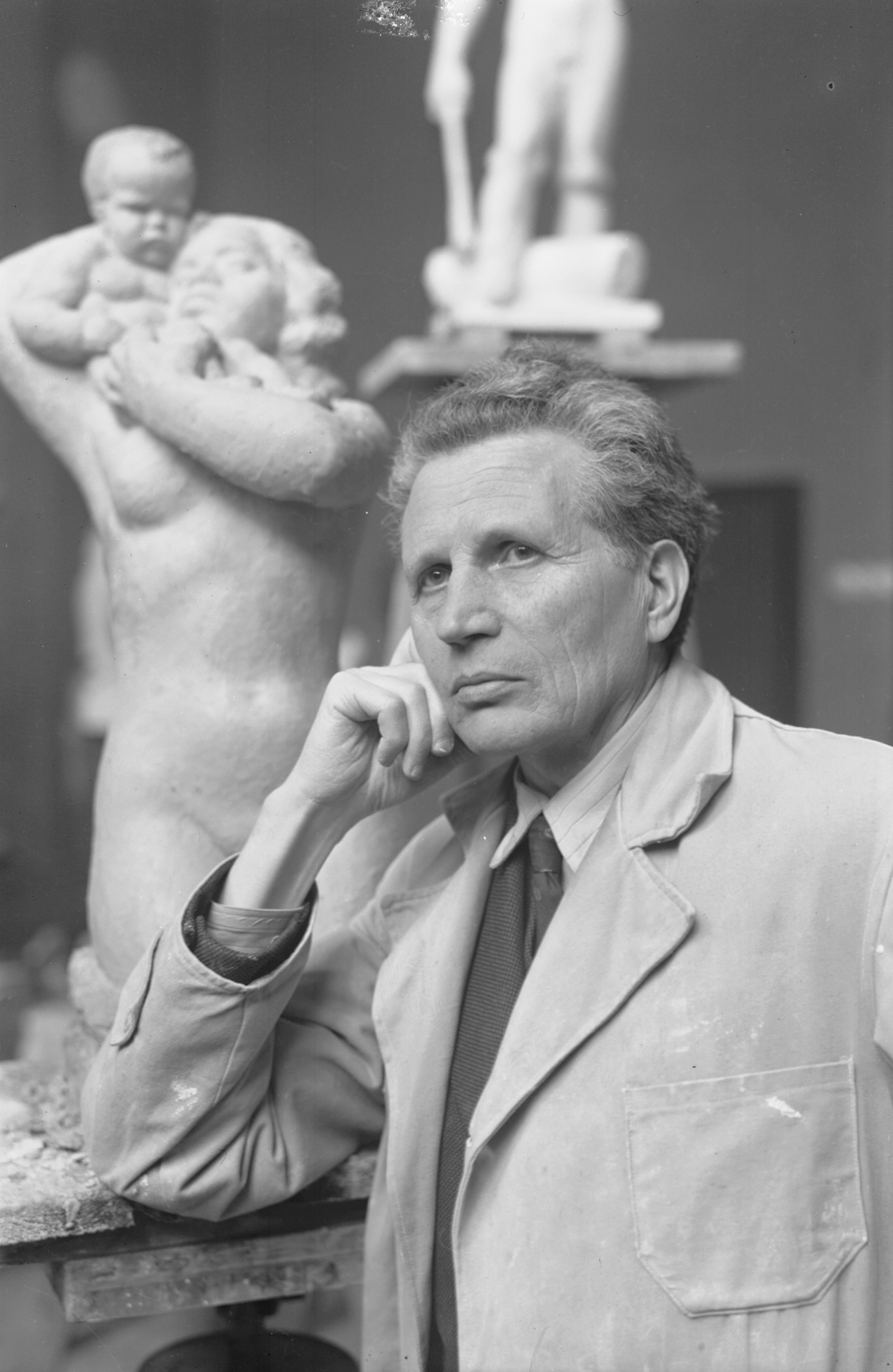 Matti Pietinen's photograph of Finnish sculptor Yrjö Liipola in Helsinki on 24th of May 1945